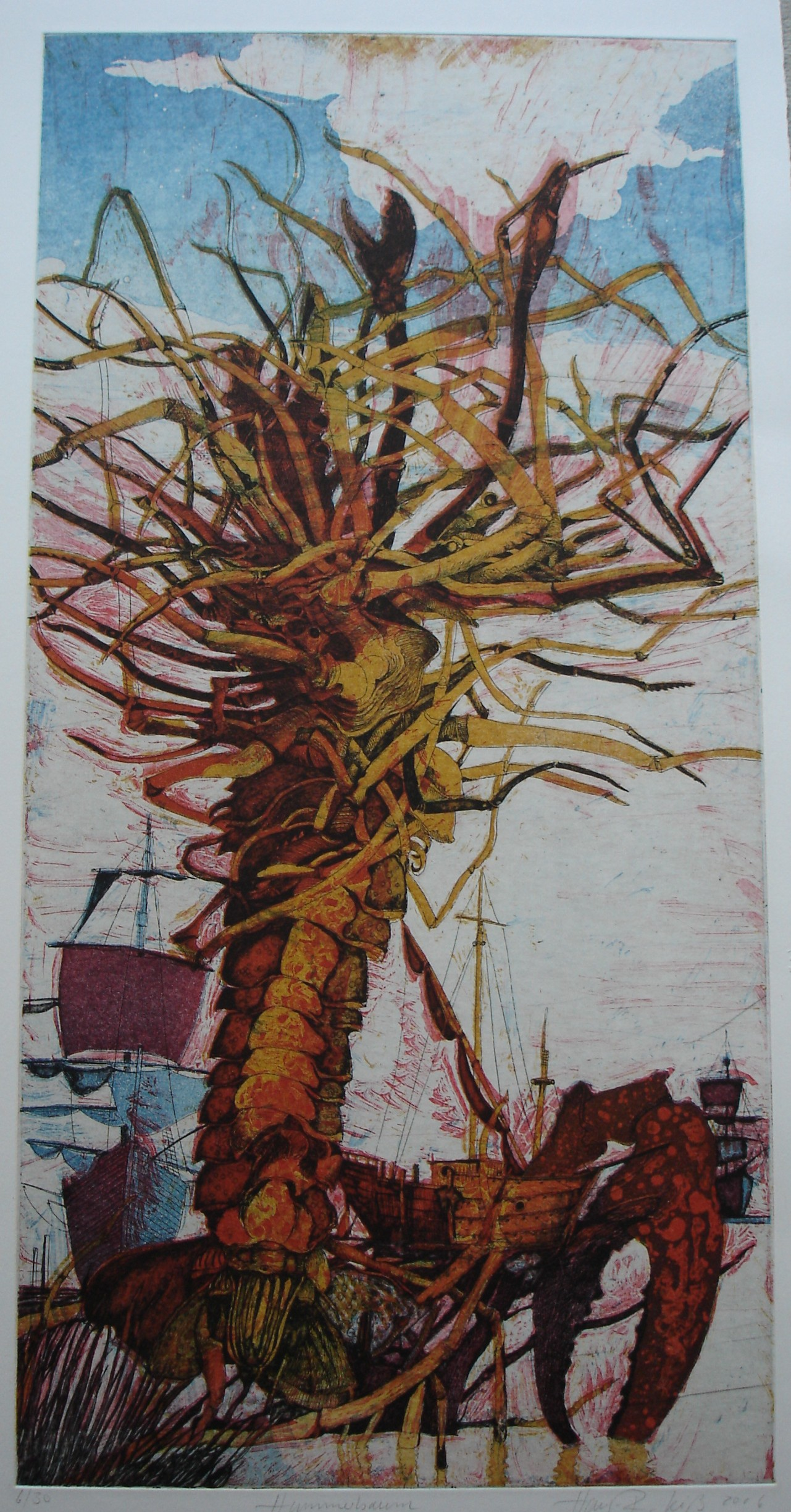 Hans-Ruprecht Leiß, etching, „lobster tree“